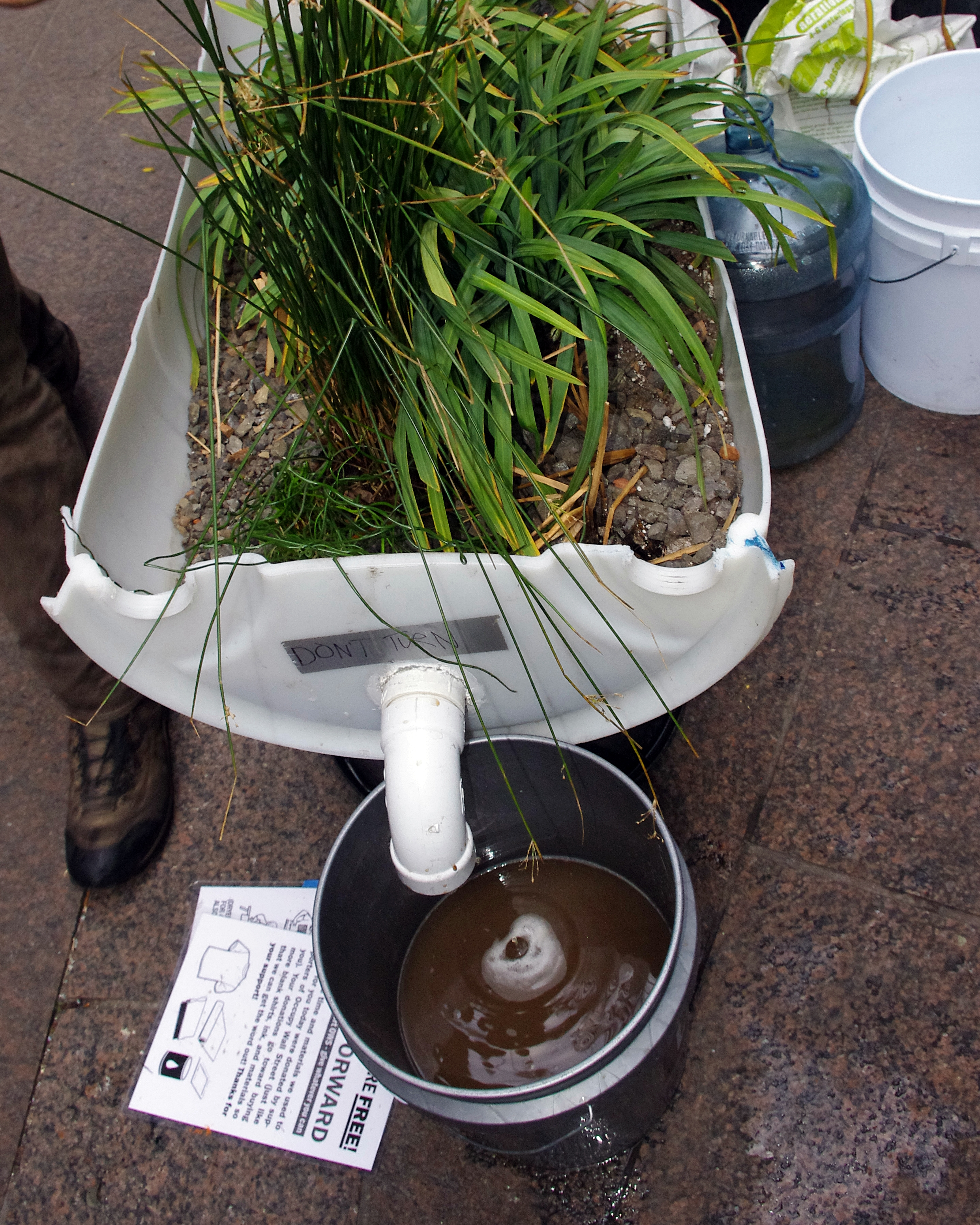 Photos from around Zuccotti Park on Day 36 of Occupy Wall Street in New York, Friday, October 21.